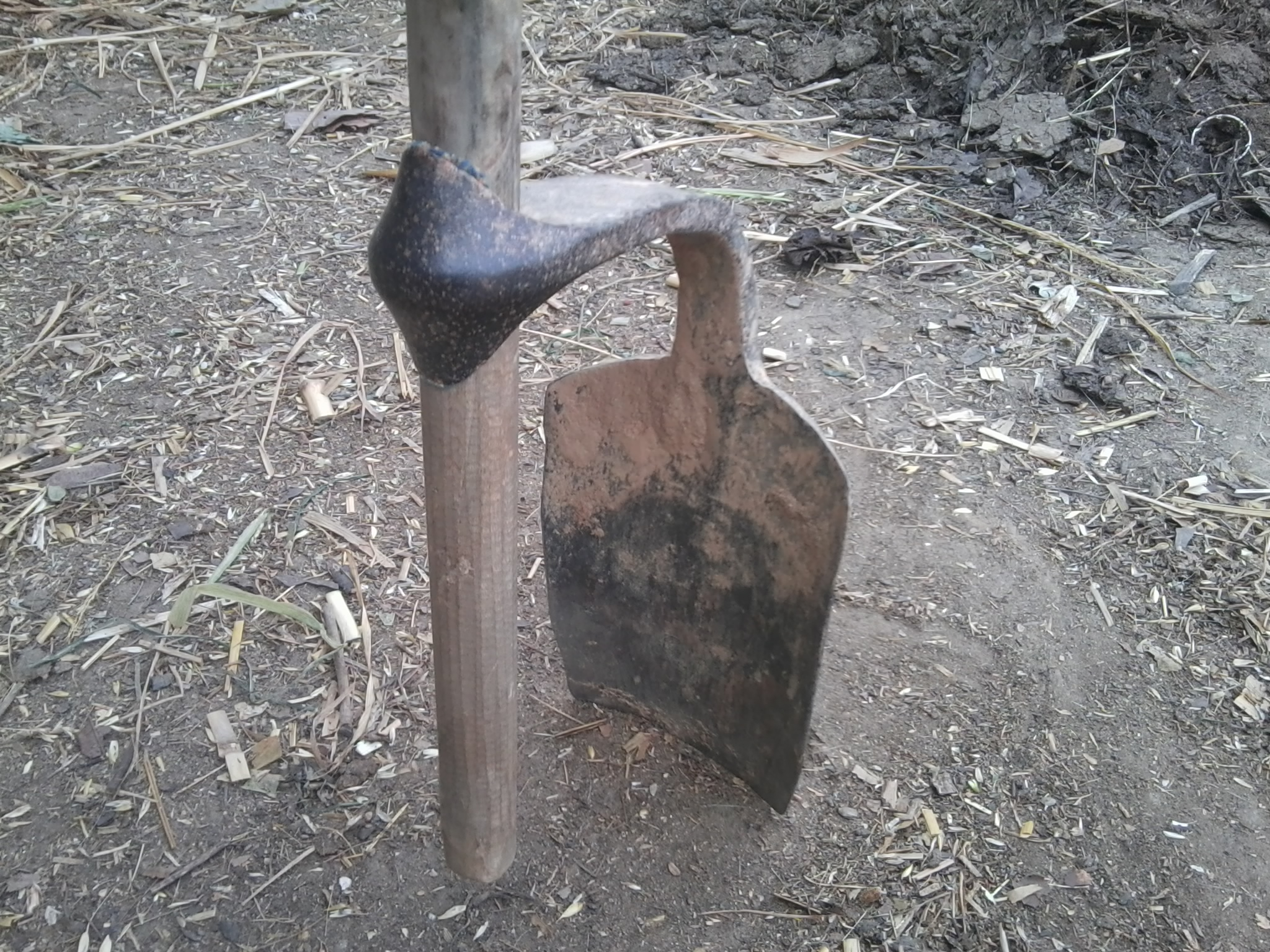 An agricultural tool used in Nepal.